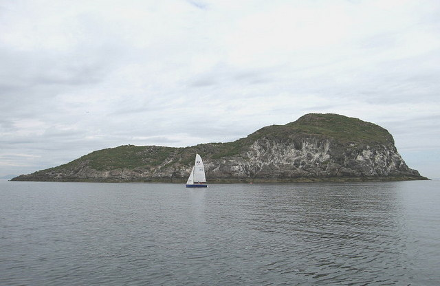 Craigleith. A small island off the East Lothian coast, Craigleith lies near the mouth of mouth of the Firth of Forth 1 mile north of North Berwick harbour. It rises to 24m and was purchased by Sir Hew Dalrymple from North Berwick Town Council in 1814. Craigleith is noted for its seabirds, including cormorants, shag, guillemot and puffins. Geologically, Craigleith is a laccolith, a dome-shape igneous intrusion, composed of essexite. View of the south of the island from a safety boat for North Berwick Regatta.